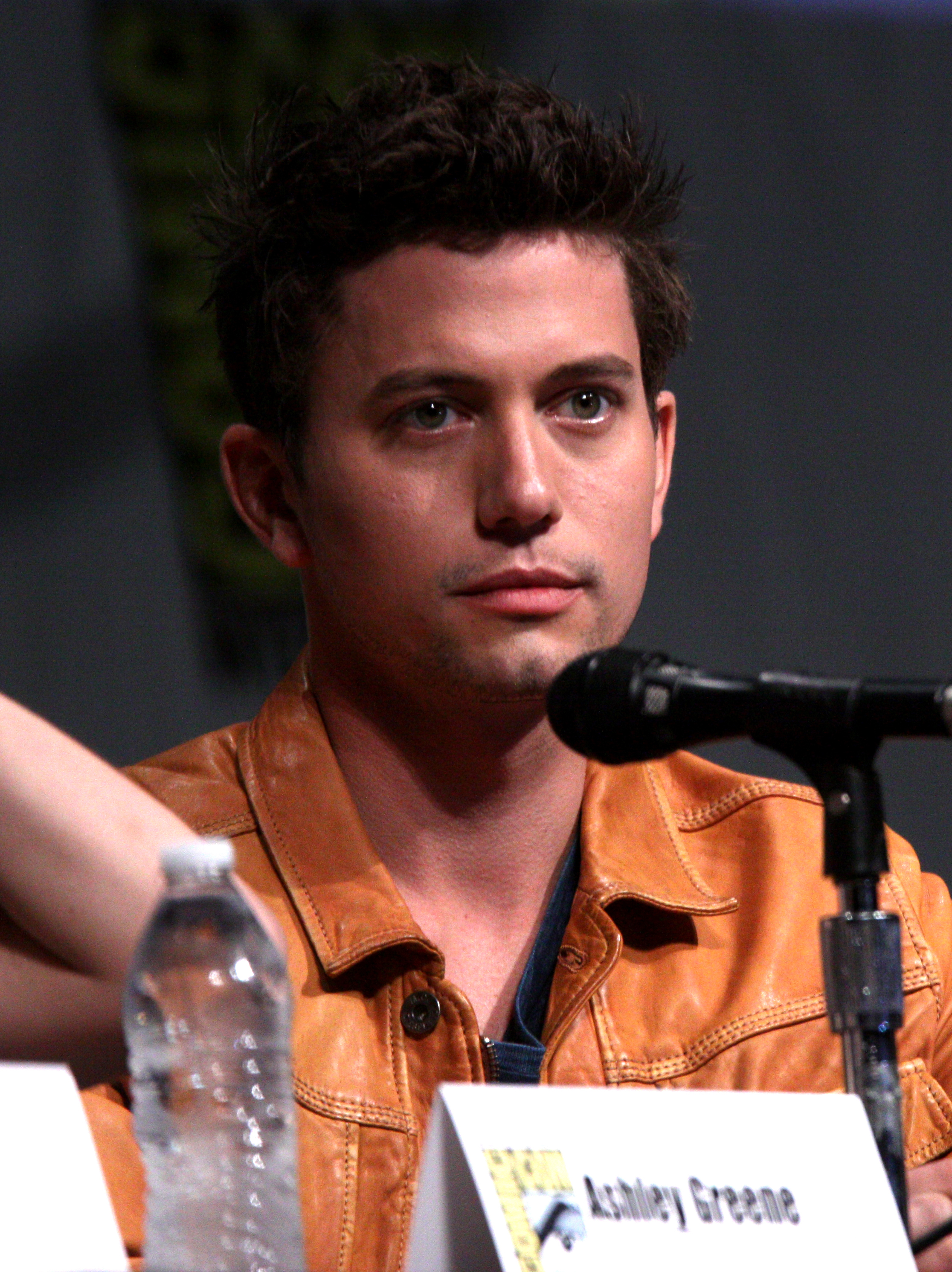 Jackson Rathbone at the 2012 Comic-Con in San Diego.